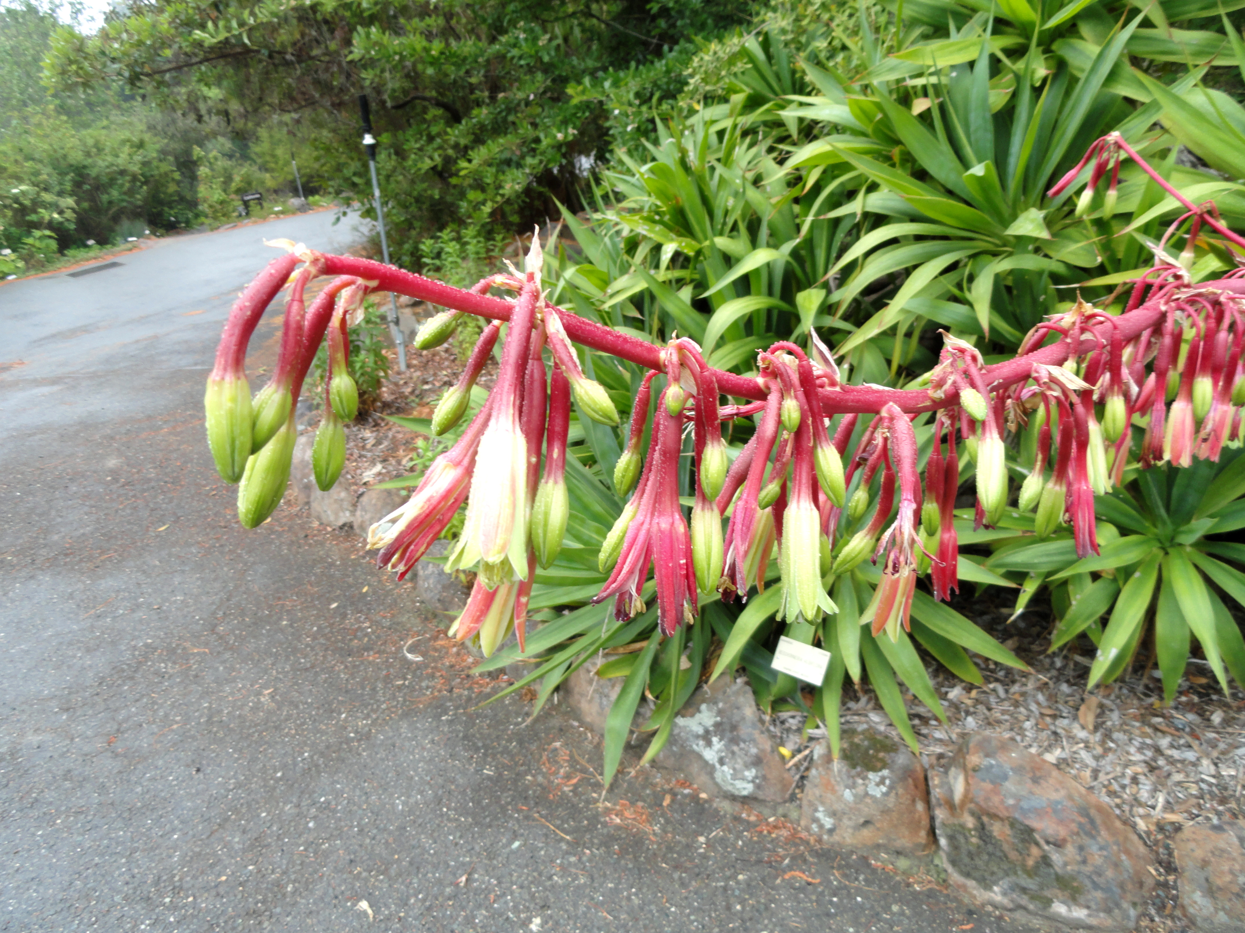 Beschorneria albiflora specimen in the University of California Botanical Garden, Berkeley, California, USA.